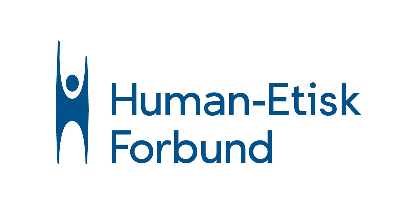 Logo of the Norwegian Humanist Association (Human-Etisk Forbund).